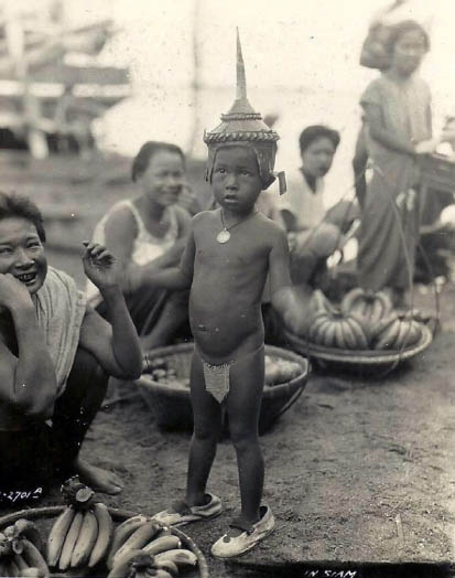 People in Bangkok, 1927.